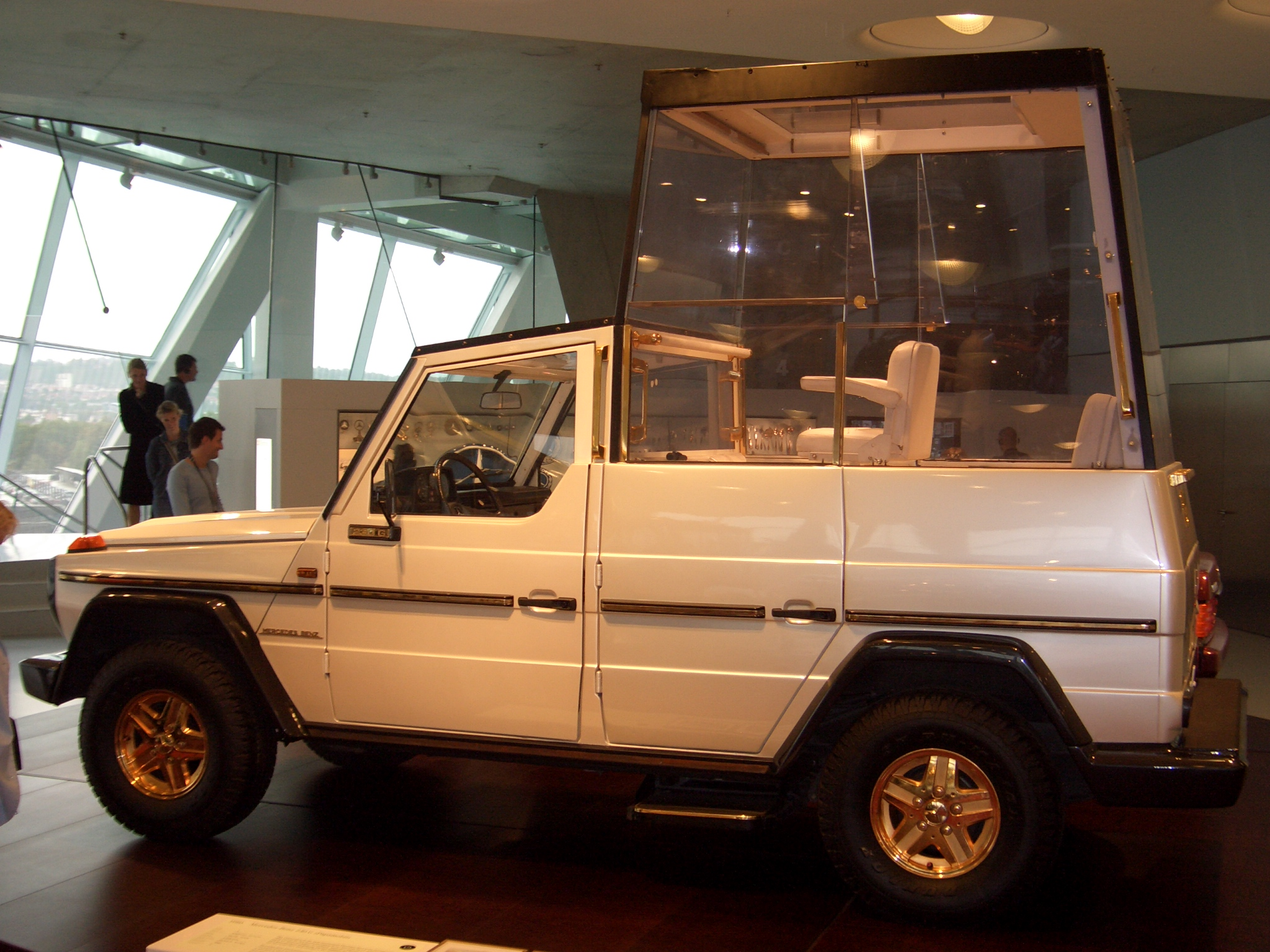 Mercedes-Benz 230G (W460), Popemobile, 1980, on display at Mercedes-Benz Museum in Stuttgart, Germany